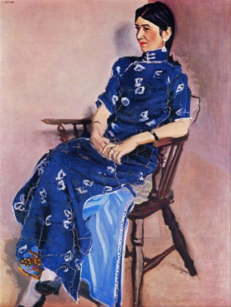 Portraut of Chin-Jung (金蓉), 1934